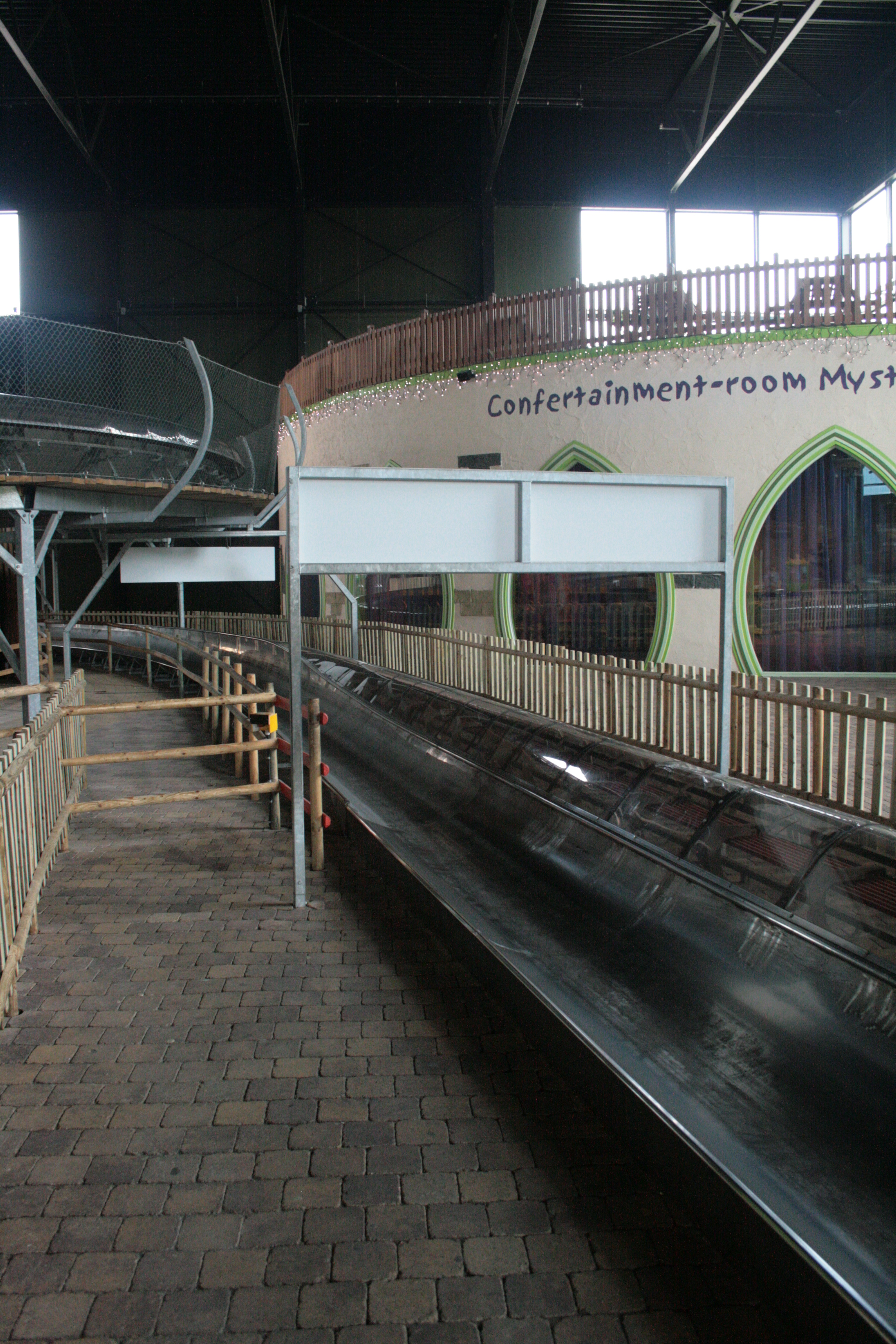 Bobkart Woudracer at Amusementspark Toverland.